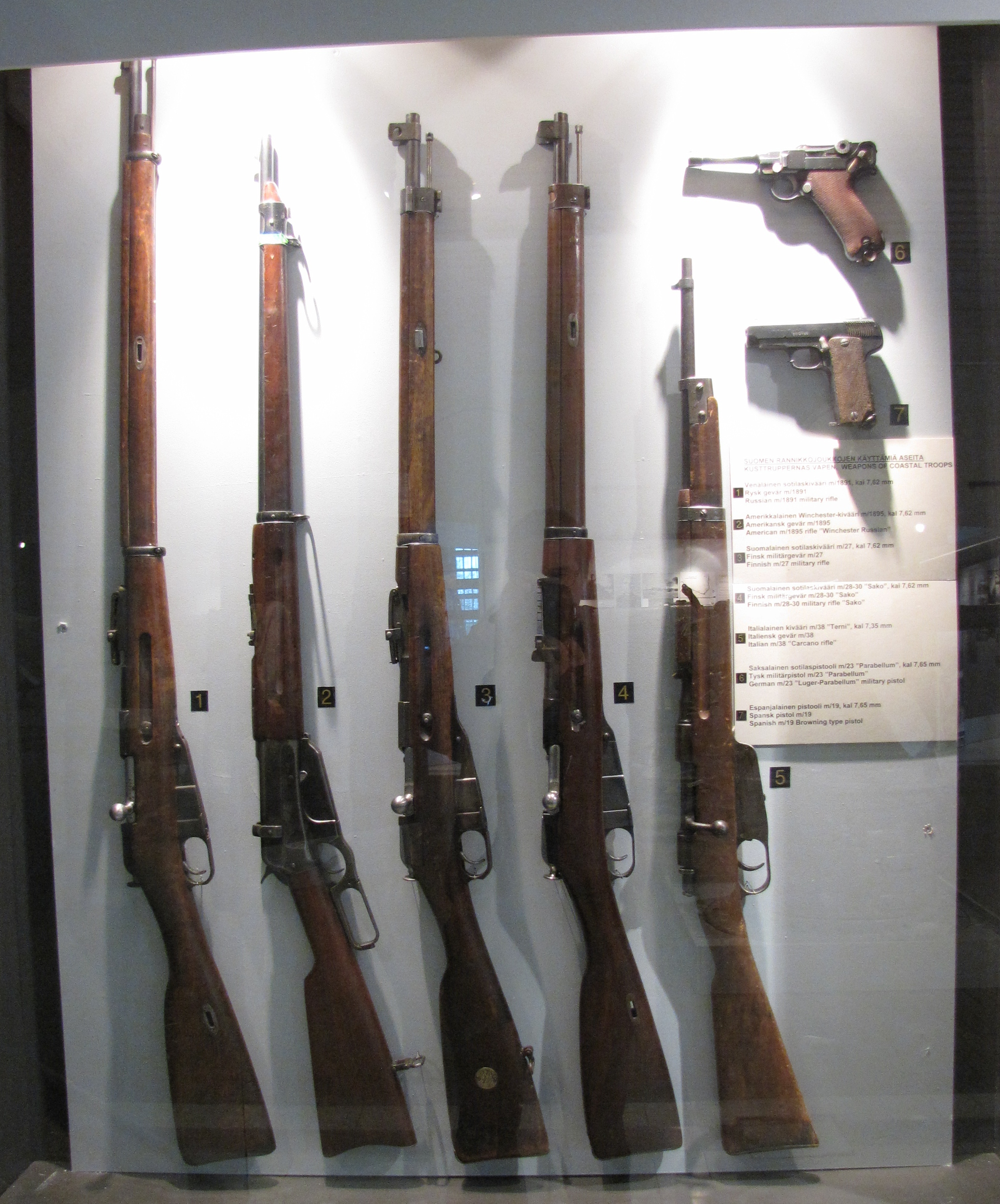 Small arms issued to Finnish coastal artillery troops during Second World War: Russian 7.62 mm Mosin–Nagant m/1891 American Winchester Model 1895 in Russian 7.62x54R caliber Finnish 7.62 mm infantry rifle m/27 Finnish 7.62 mm infantry rifle m/28-30 Italian 7.35 mm Carcano rifle, Finnish designation m/38 German 7.6m mm Luger P08 pistol, Finnish designation m/23 Spanish 7.65 mm Ruby pistol, Finnish designation m/19